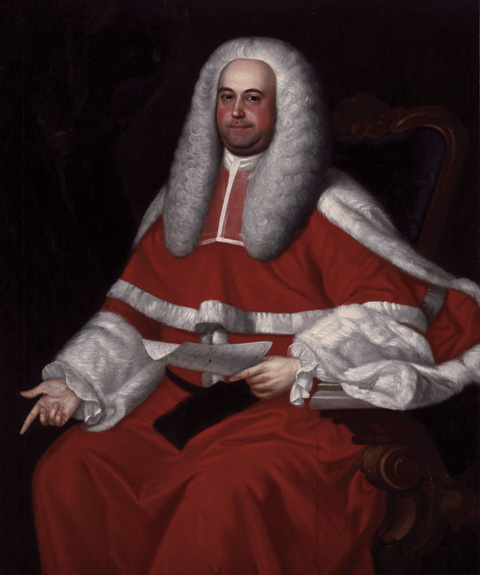 A portrait of Nova Scotia jurist and governor Jonathan Belcher, based on a 1741 mezzotint by John Faber.